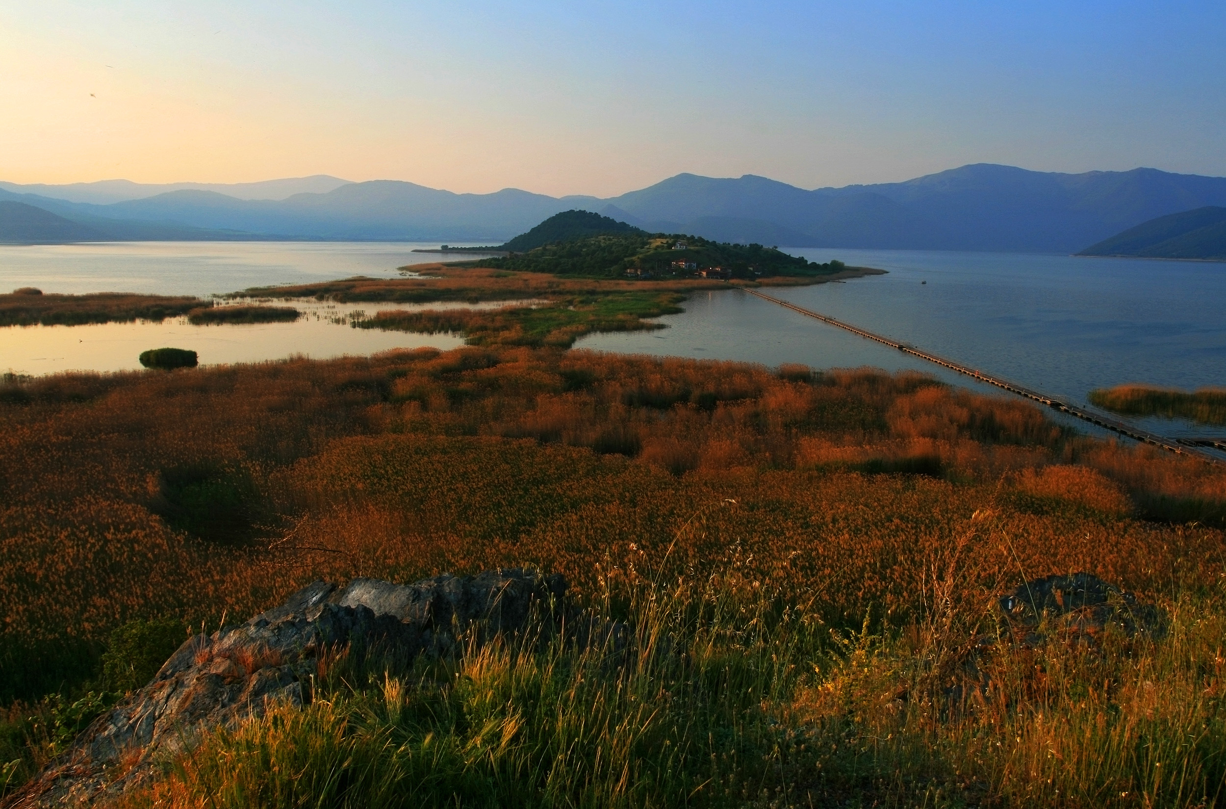 This is a photography of Natura 2000 protected area with ID GR1340001